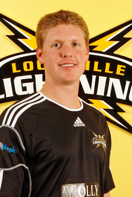 David Horne, former general manager of the Louisville Lightning